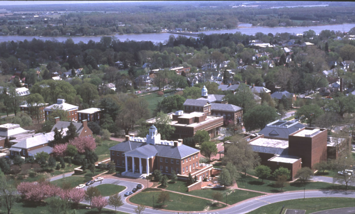 An aerial view of the Washington College campus and Chestertown, Maryland, United States.